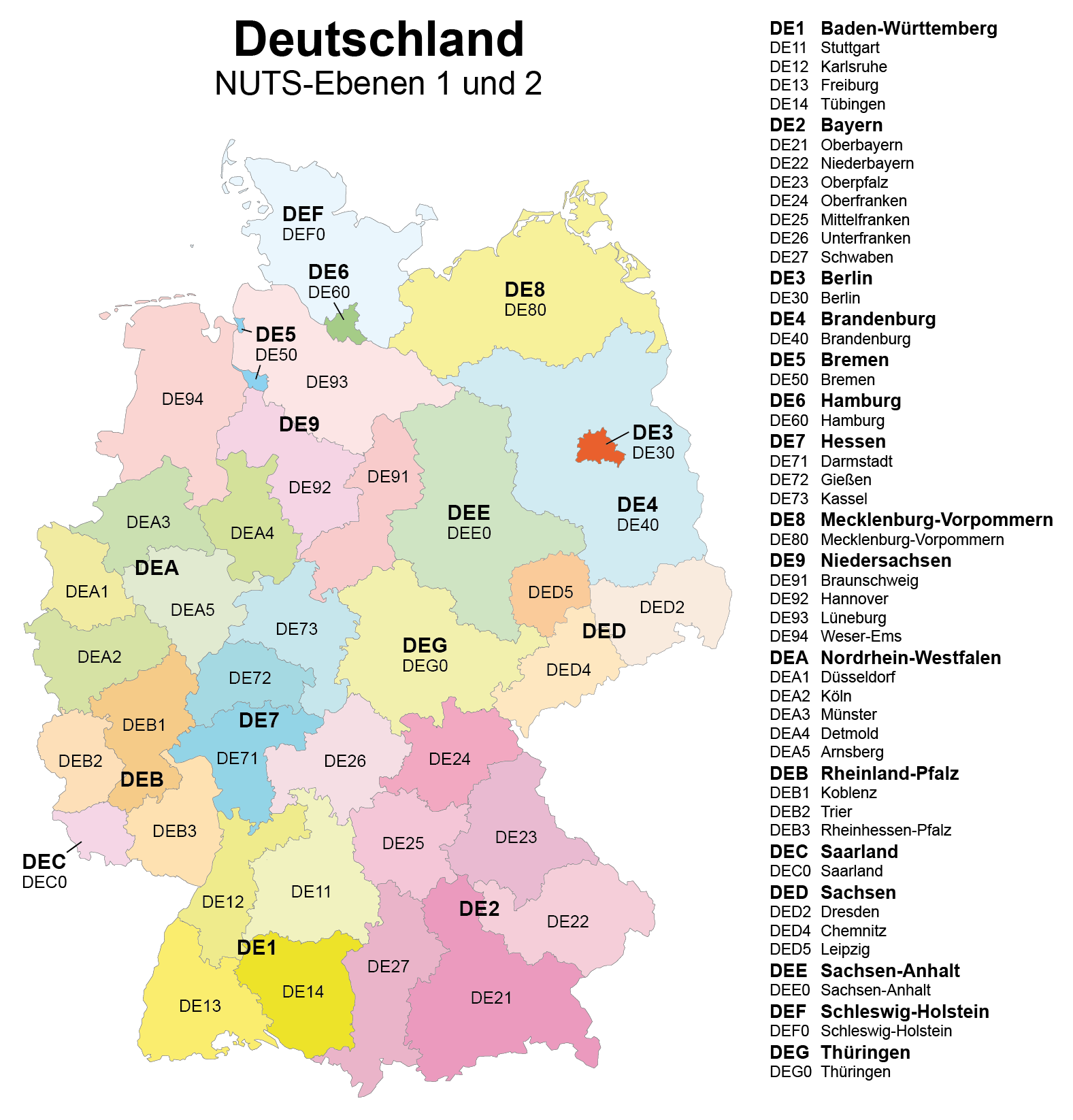 Map of Germany: NUTS regions on level NUTS1 and NUTS2